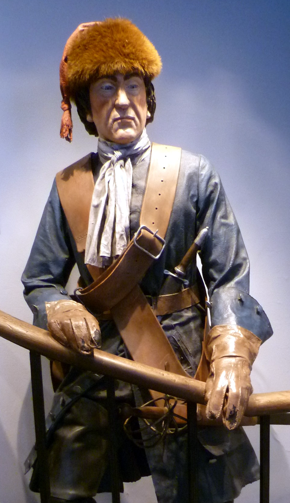 In 1683, General Dalziel ordered from New Mills near Haddington 2,536 ells of 'stone-grey cloth' for his regiment of dragoons, hence their adopted name, the 'Scots Greys'. An exhibit in the National War Museum, Edinburgh Castle.